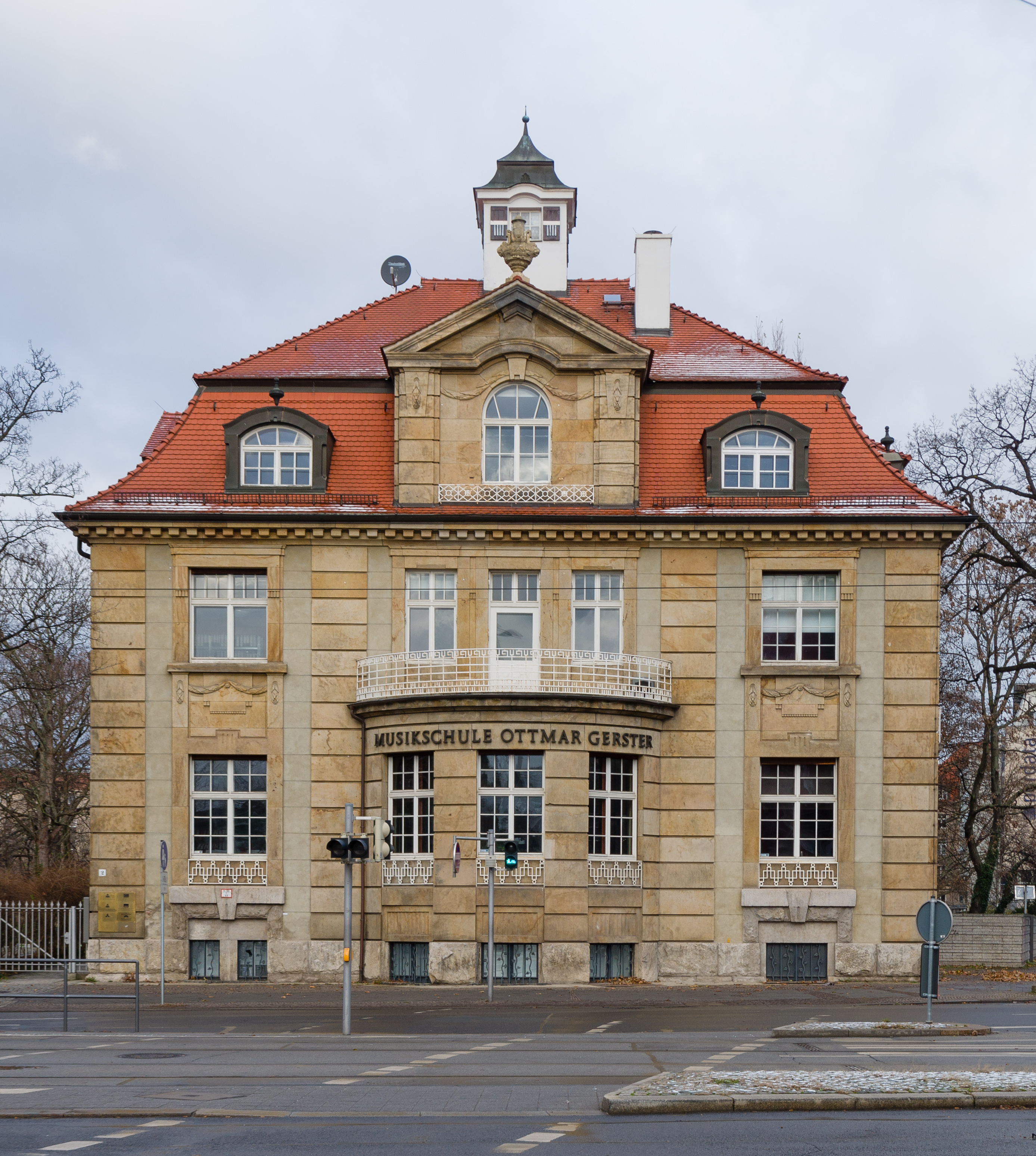 Palais Nauhardt in Leipzig, Karl-Tauchnitz-Straße 2; protected monument